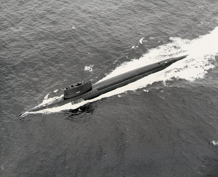 USS Triton (SSRN-886) during sea trials.